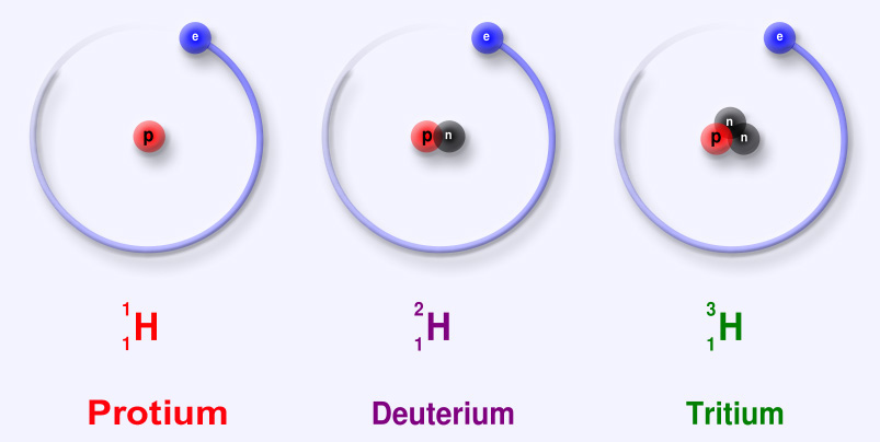 The three isotopes of hydrogen